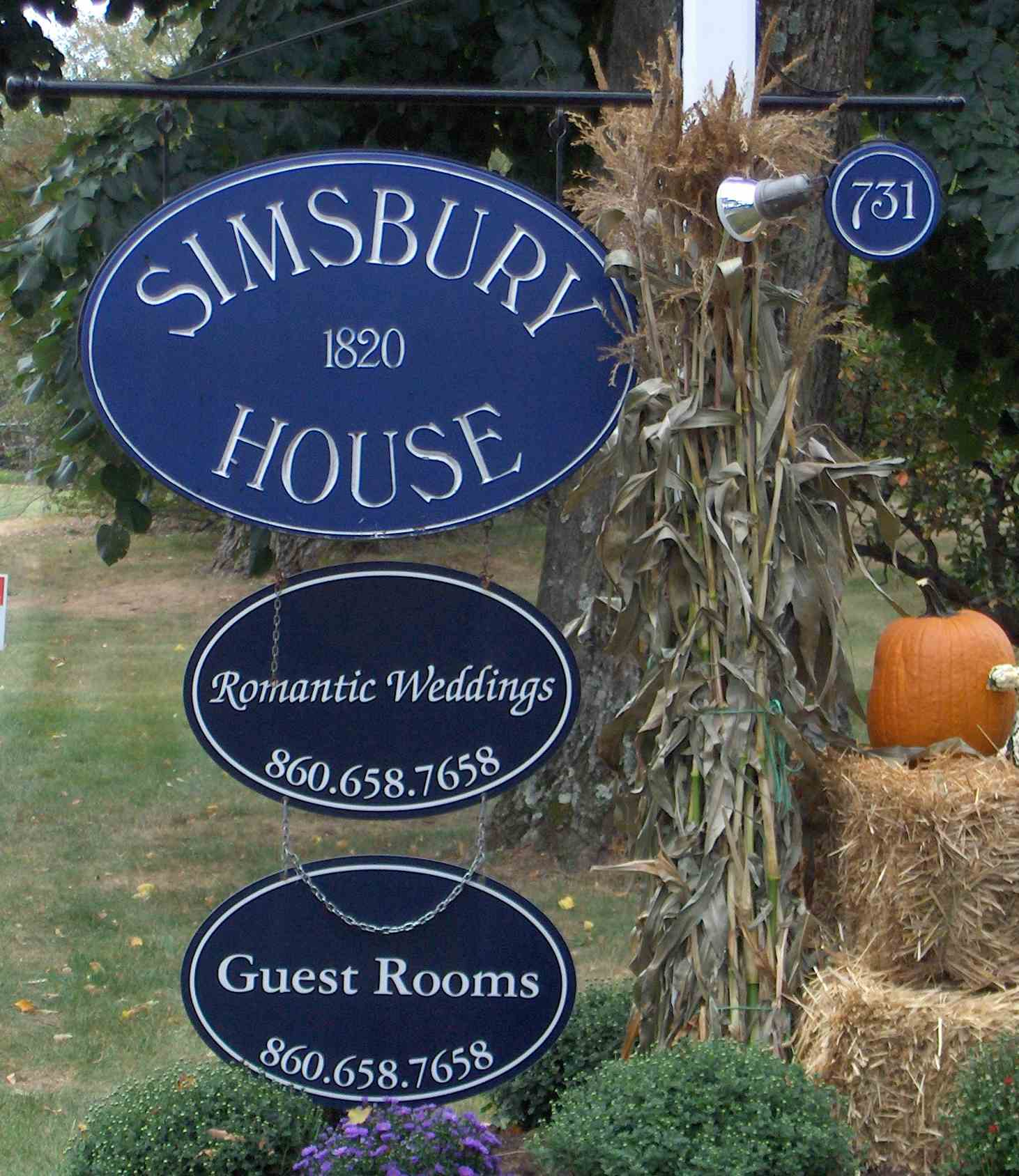 Cropped version of Sign in Front of 1820 House (aka Amos Eno House, aka the Simsbury House)